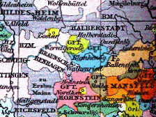 County of Blankenburg (light blue) around 1400